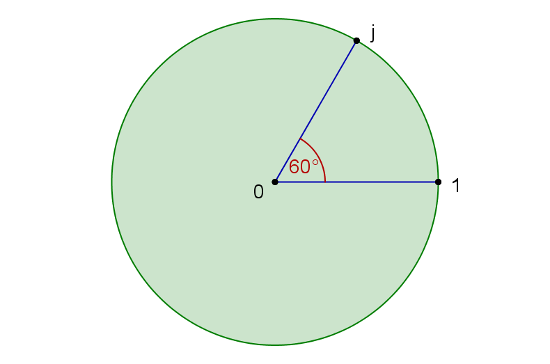 Rotation of 60 degrees, mapping 1 onto j = 1 / 2 + i 3 / 2 {\displaystyle j=1/2+i{\sqrt {3 /2}